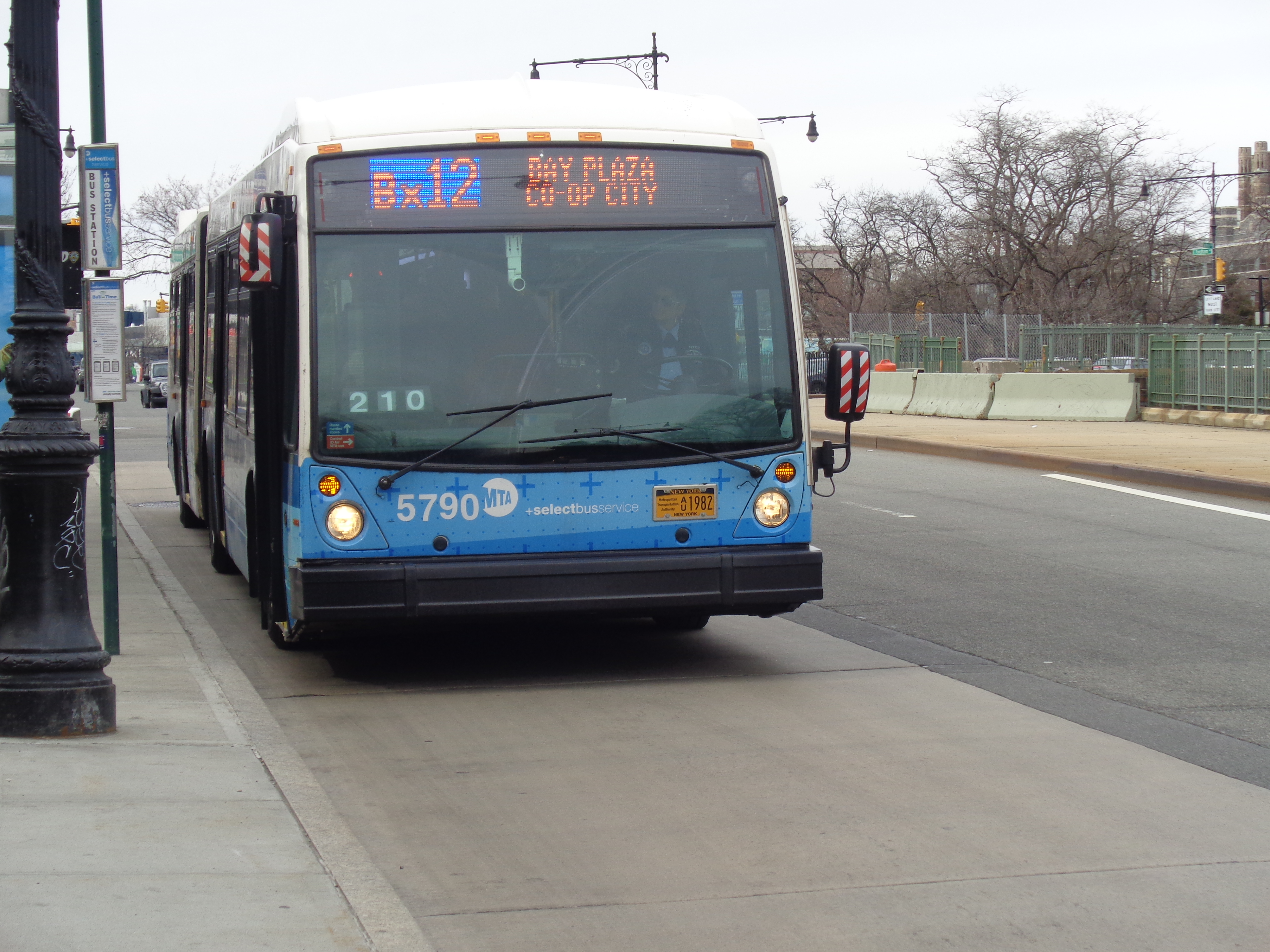 A Bay Plaza-bound Bx12 Select Bus Service bus at Fordham Road and Southern Boulevard, in front of the Bronx Zoo and across from the New York Botanical Garden in the Bronx, New York City.